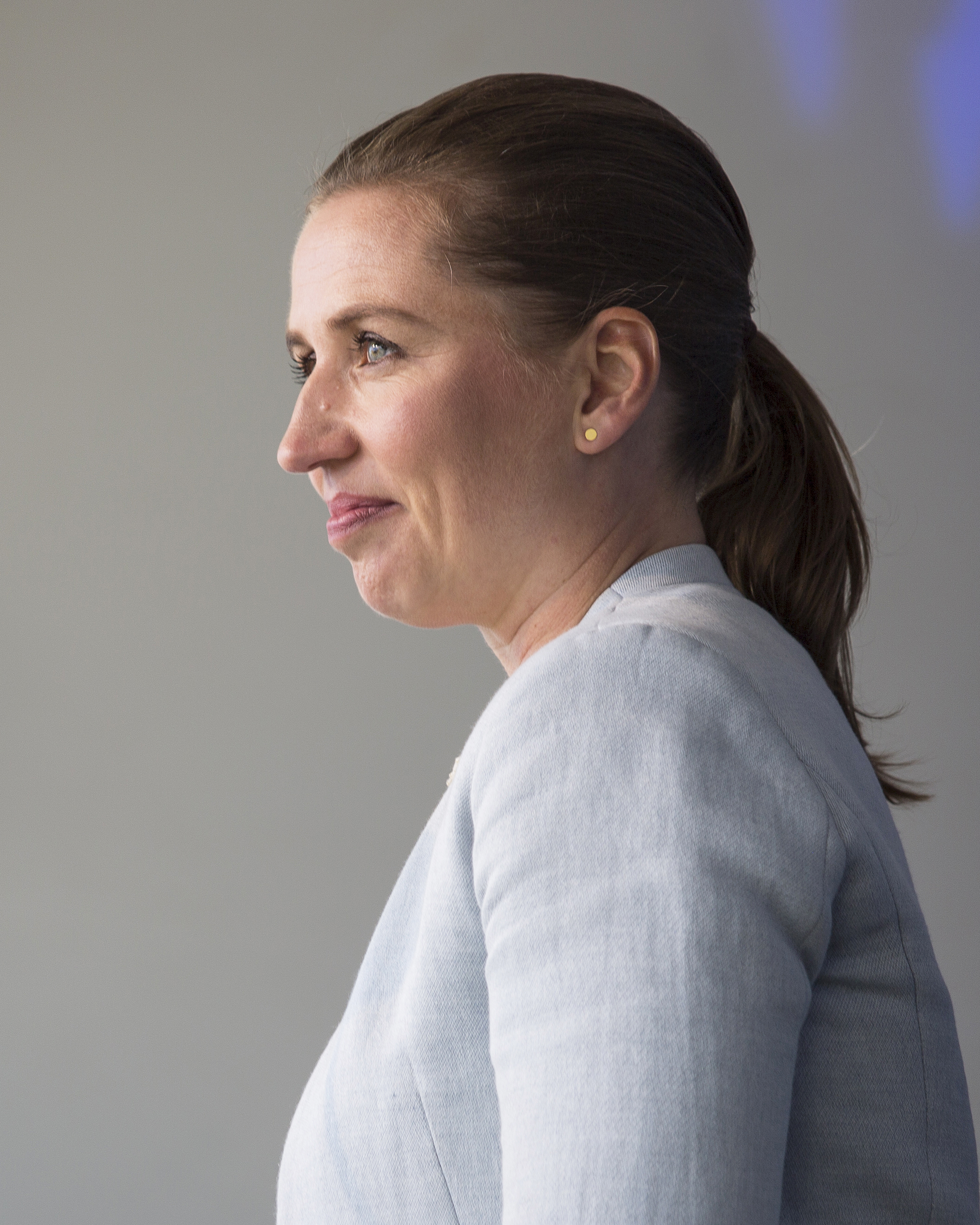 Danish Social Democratic Party leader Mette Frederiksen speaks at the People's Meeting in Allinge on Bornholm